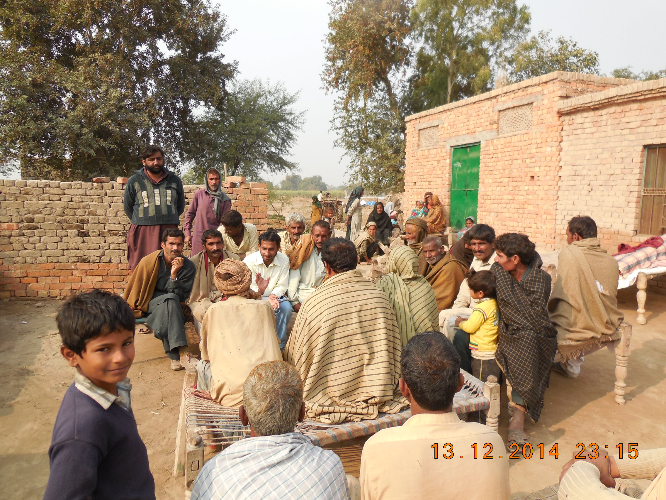 WASH & Disaster Risk Reduction Assessment Work Jhang